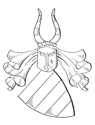 Coat of arms of the german family von Massow.